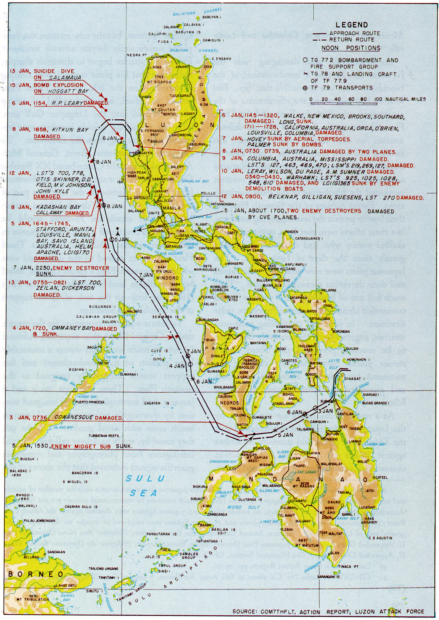 A detailed map of the route of the Luzon Attack Force for the invasion of Luzon at Lingayen Gulf on 9 January 1945. Map shows date, time and location of all ships, American and Japanese, damaged or sunk during the approach and landing. Original source: COM7THFLT, Action Report, Luzon Attack Force